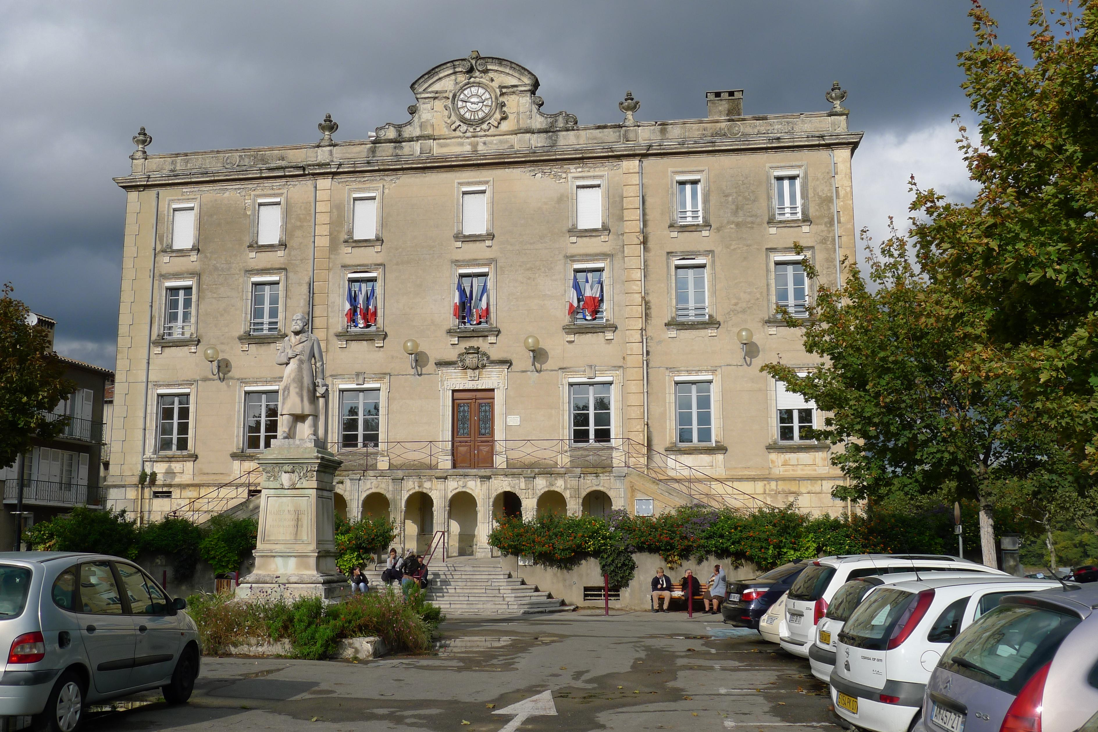 Town hall of Bourg-Saint-Andéol - Ardèche - France